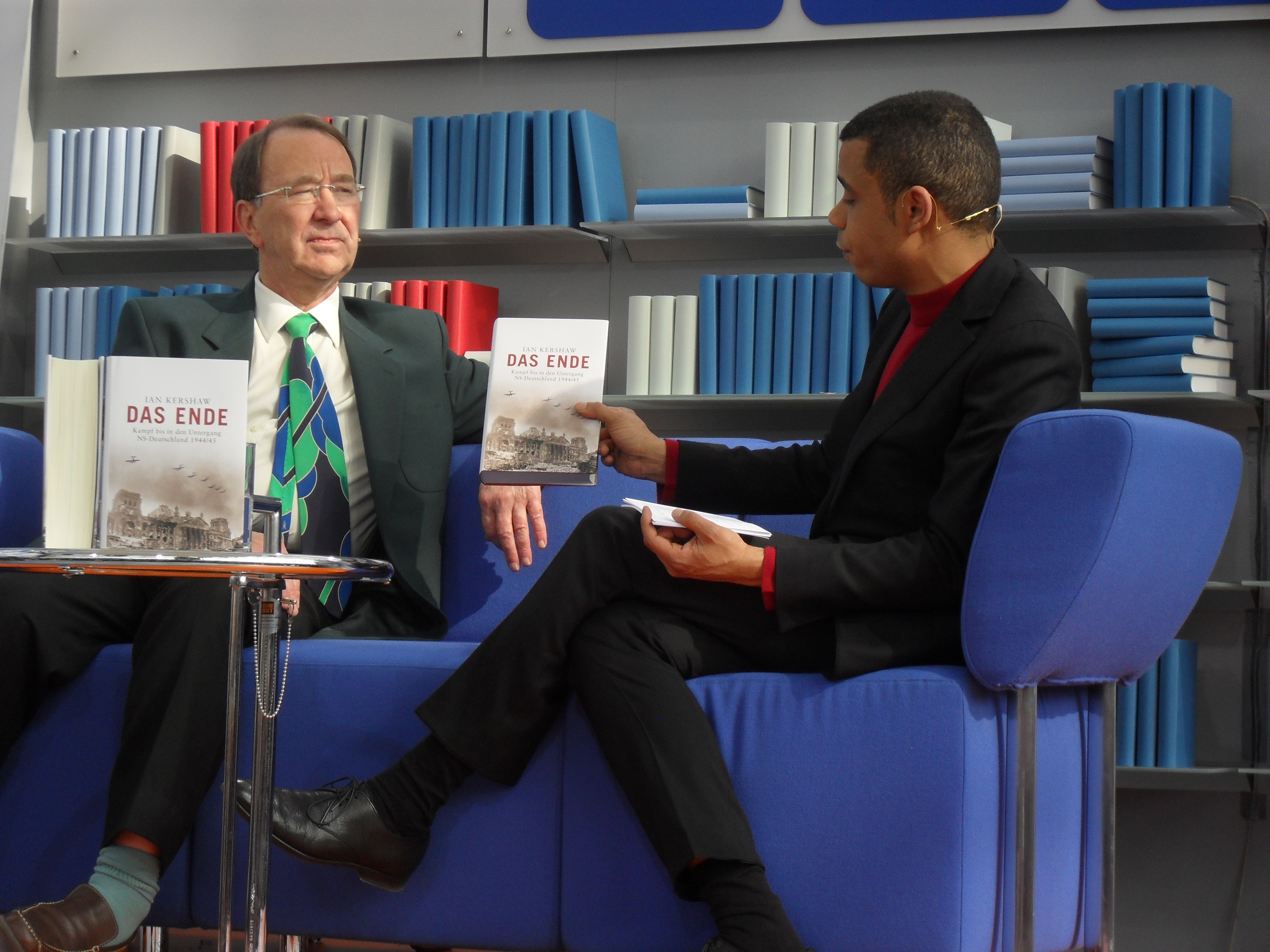 Ian Kershaw (left) on the Leipzig Book Fair 2012